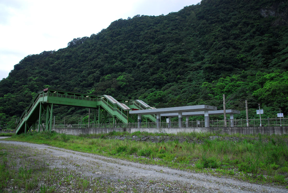 WuTa Station is a local small train station of North-Link Line, part of Taiwan's eastern rail line. It is a staffless small station located in very remote location.